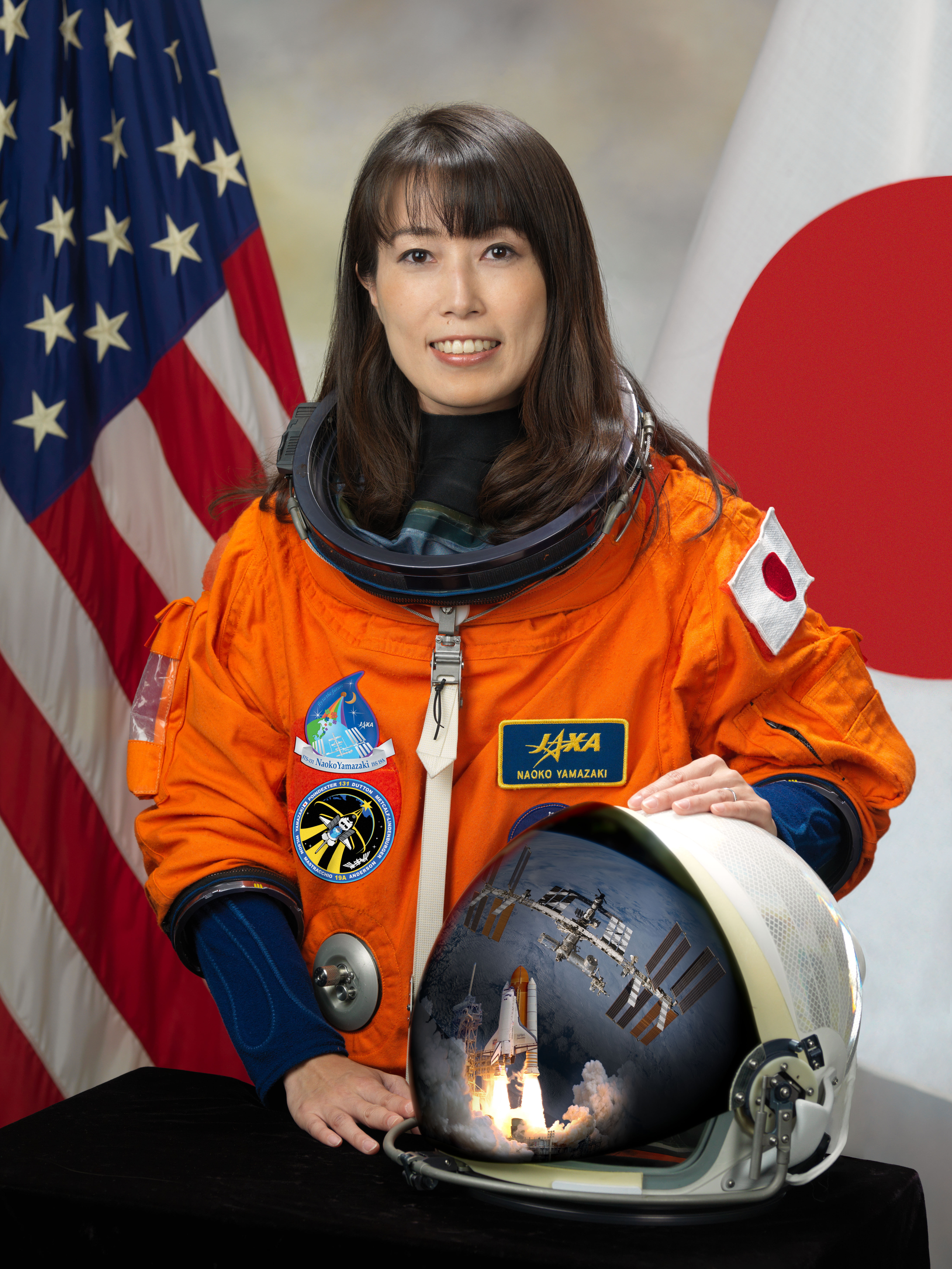 Japan Aerospace Exploration Agency (JAXA) astronaut Naoko Yamazaki, mission specialist